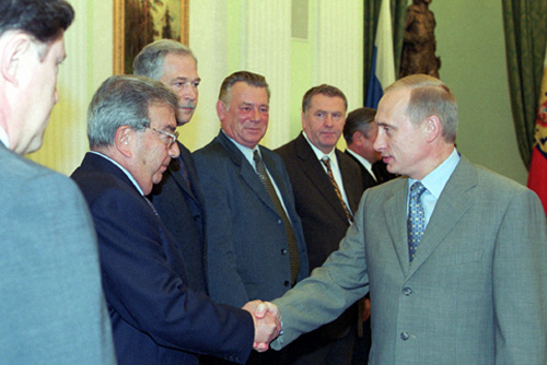 THE KREMLIN, MOSCOW. Meeting with the leaders of the Russian State Duma factions. Vladimir Putin and Yevgeny Primakov, leader of the Fatherland - All Russia faction.